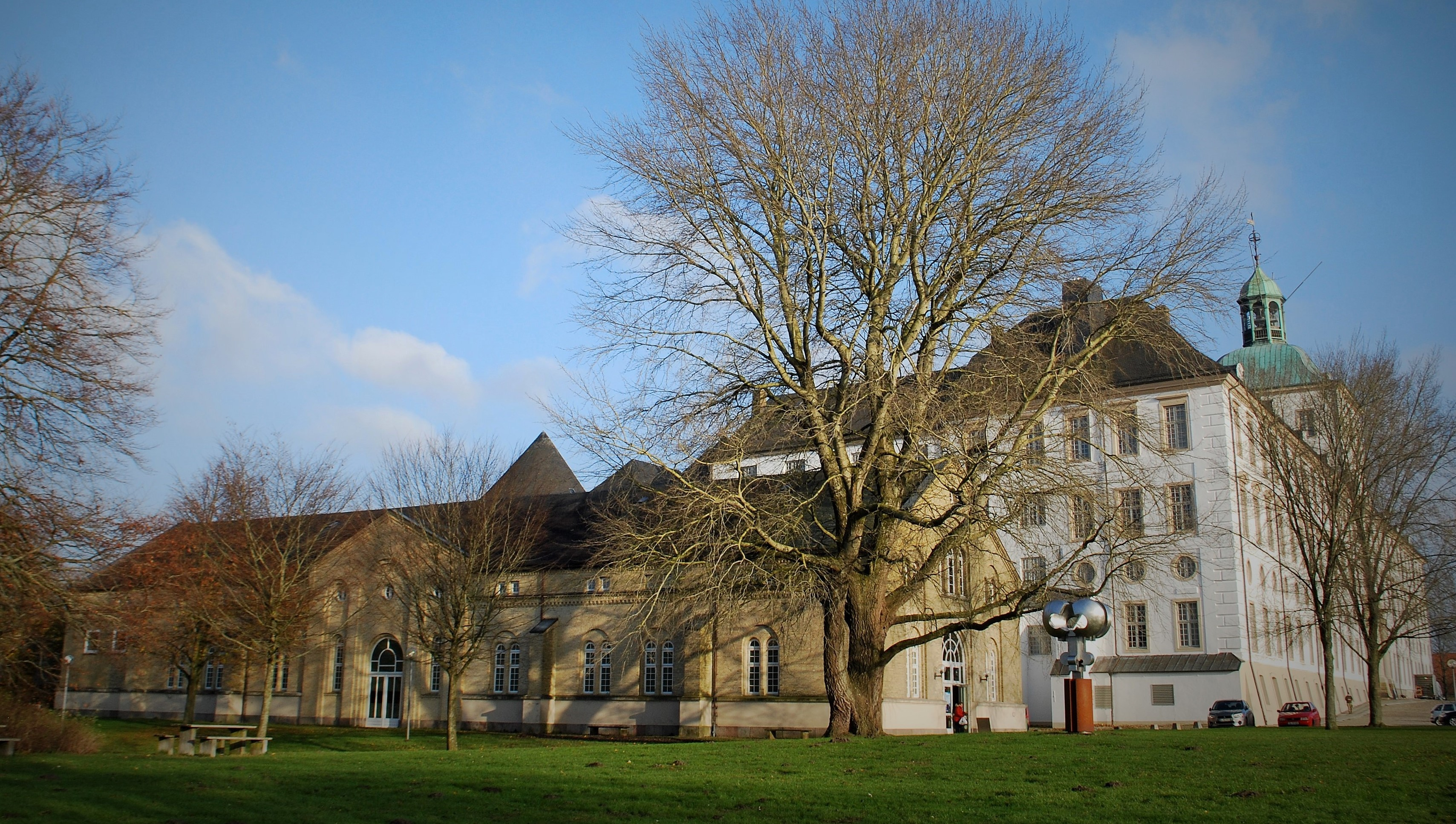 Gottorf Castle, Schleswig, Schleswig-Holstein, Germany